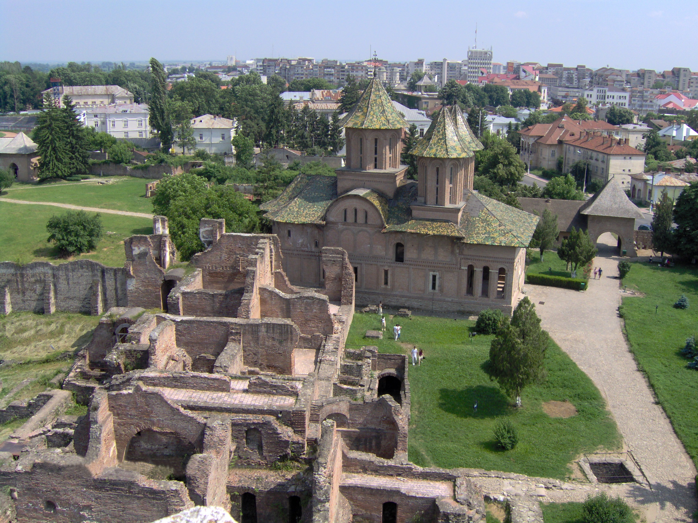 The castle of Vlad Tepes (Dracula), Târgovişte, Romania.